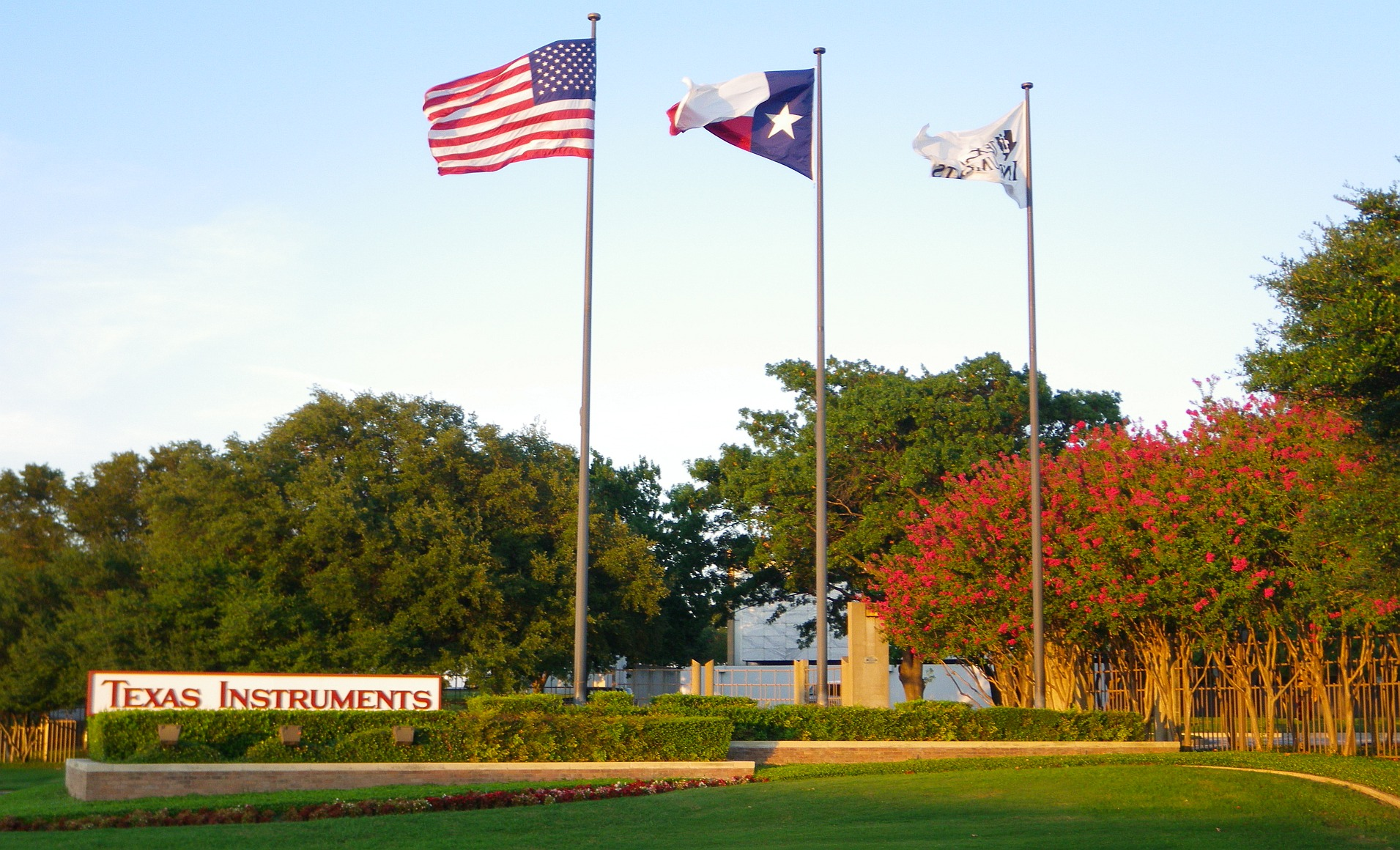 Landscape and sign outside of Gate 3 of the main manufacturing facility of Texas Instruments, part of the headquarters complex on TI Blvd, Dallas, TX 75243.